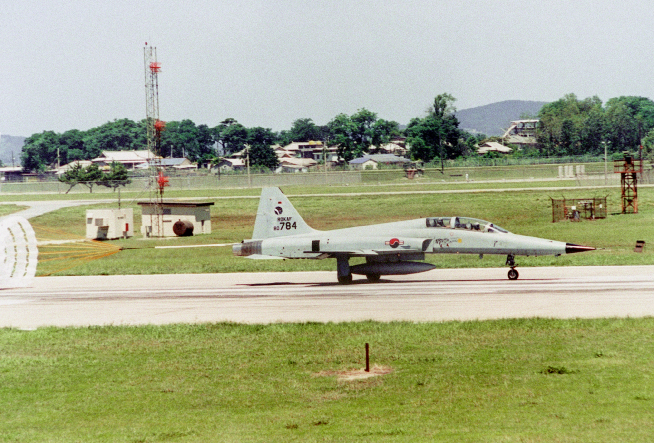 A Republic of Korea Air Force Northrop F-5F Tiger II (s/n 78-0784) after landing at a Korean air base on 29 July 1996.